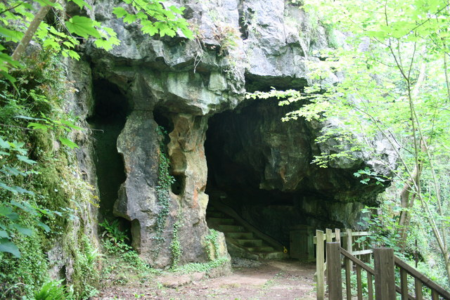 Higher Kiln Quarry Caves. These caves are in an outcrop of limestone on the edge of the granite aureole of Dartmoor. They were found as the limestone was quarried many years ago, and are now listed as SSSI because of their importance. This cave is called the Joint Mitnor cave after the local men who first explored it. Access can only be made through the William Pengelly Cave Studies Trust [1]. See 1097493.